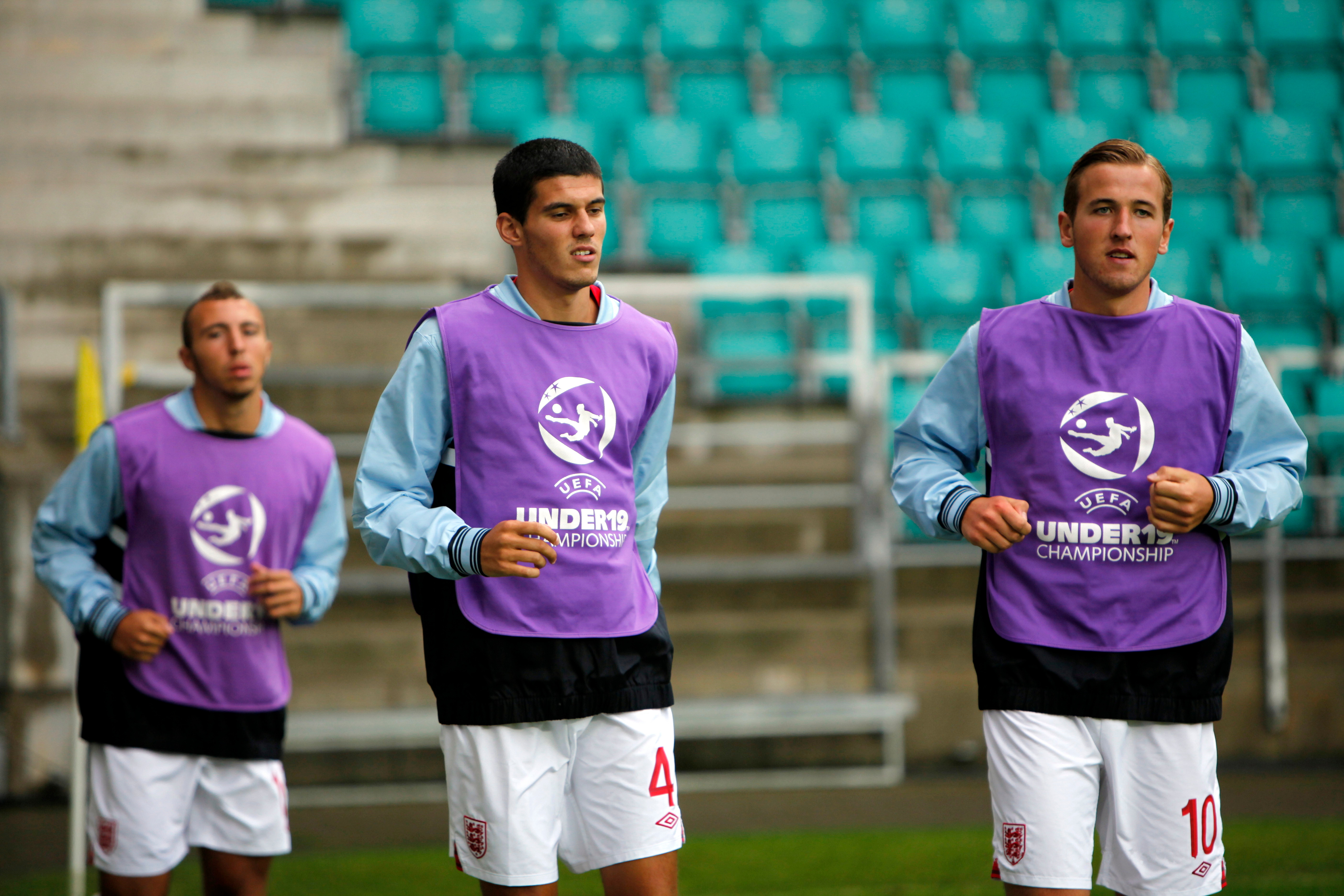 Conor Coady and Harry Kane during 2012 UEFA Euro U-19 in Estonia.